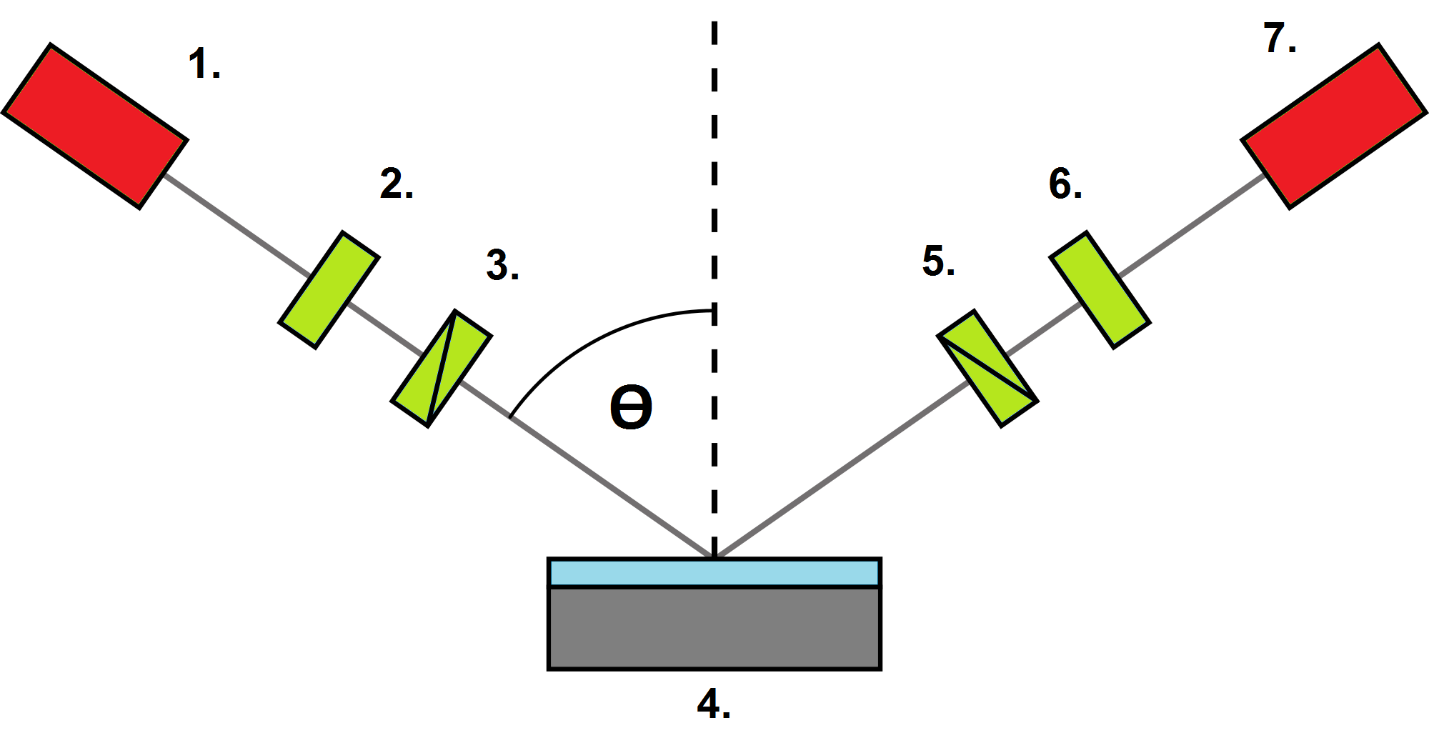 Scematic of ellipsometry setup